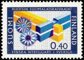 Forest Finns in Sweden - Finn emigrants of 1600s